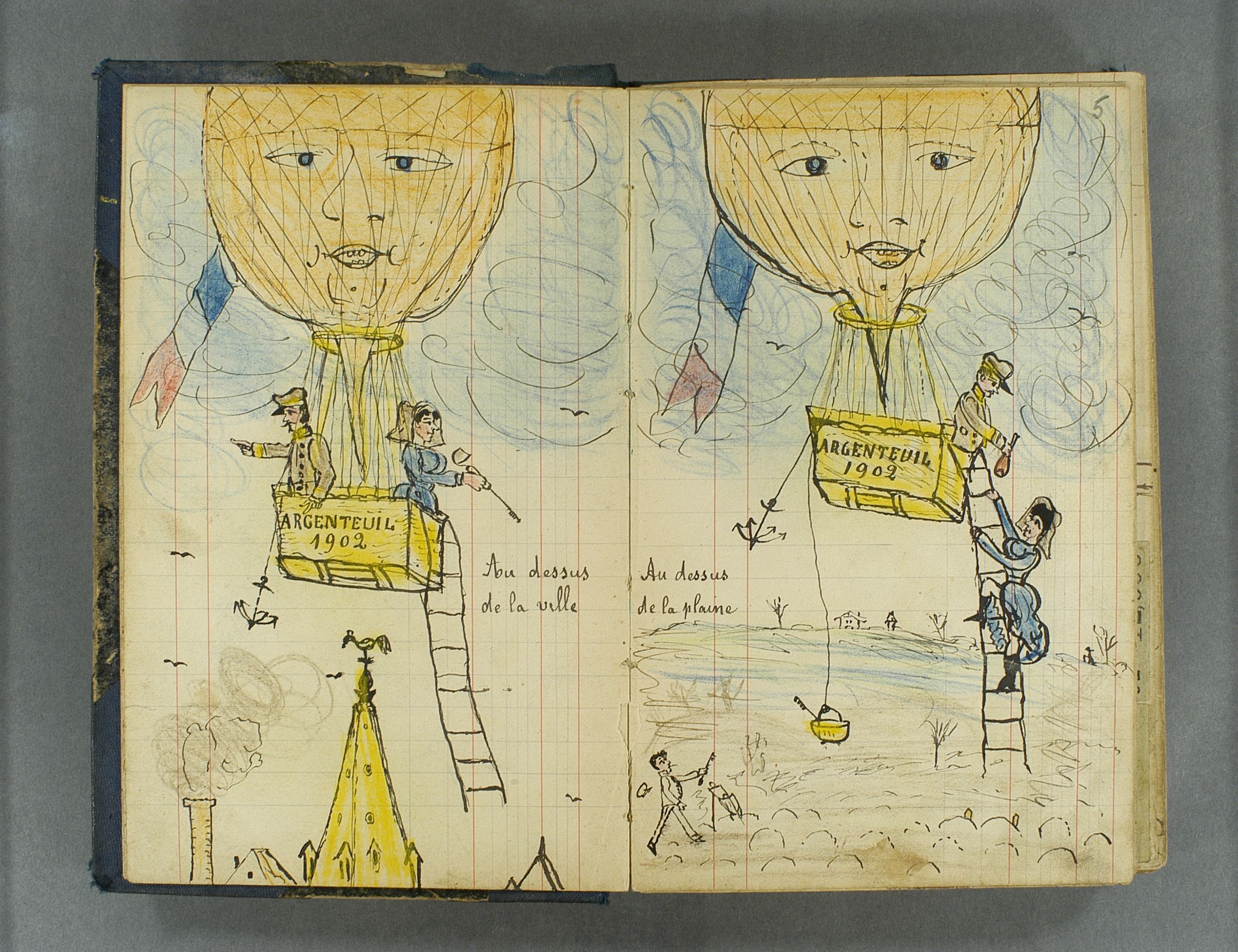 Jean-Etienne Delacroix [Argenteuil, 1849 - Argenteuil, 1923] : sketchbook, 1902, Argenteuil Museum